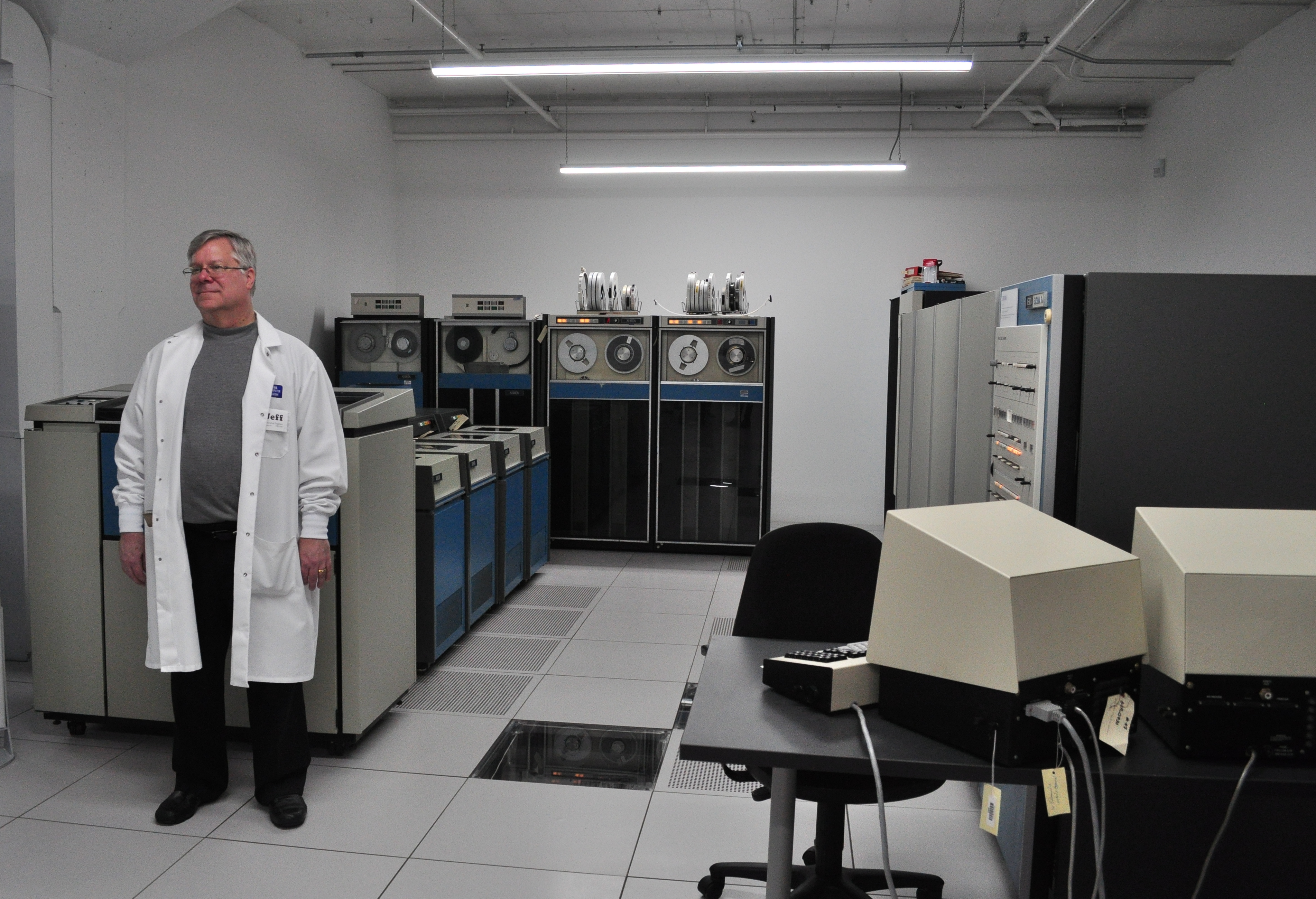 Xerox XDS Sigma 9 computer, including peripherals, Living Computer Museum, Seattle, Washington, USA.